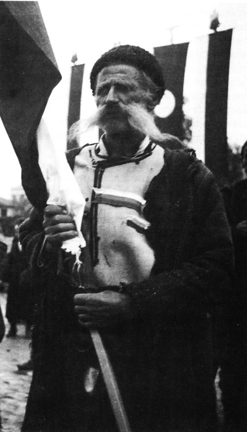 Old Bulgarian comitadji, celebrating Ilinden Uprising in Krushevo, Macedonia, 1943.